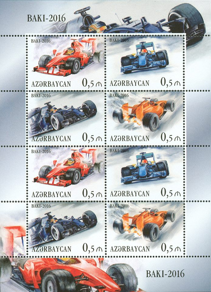 NN 1262 – 1265 - 50 qapik of each. There are pictured a different Formula 1 cars on the stamps.